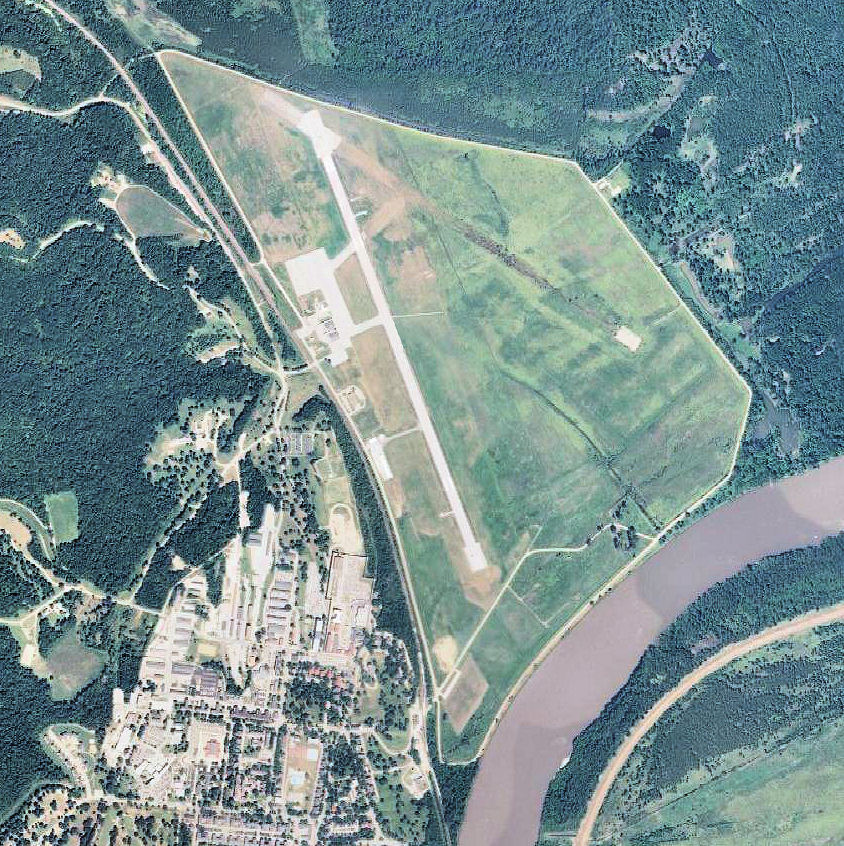 USGS orthophoto of Sherman Army Airfield in Kansas, United States